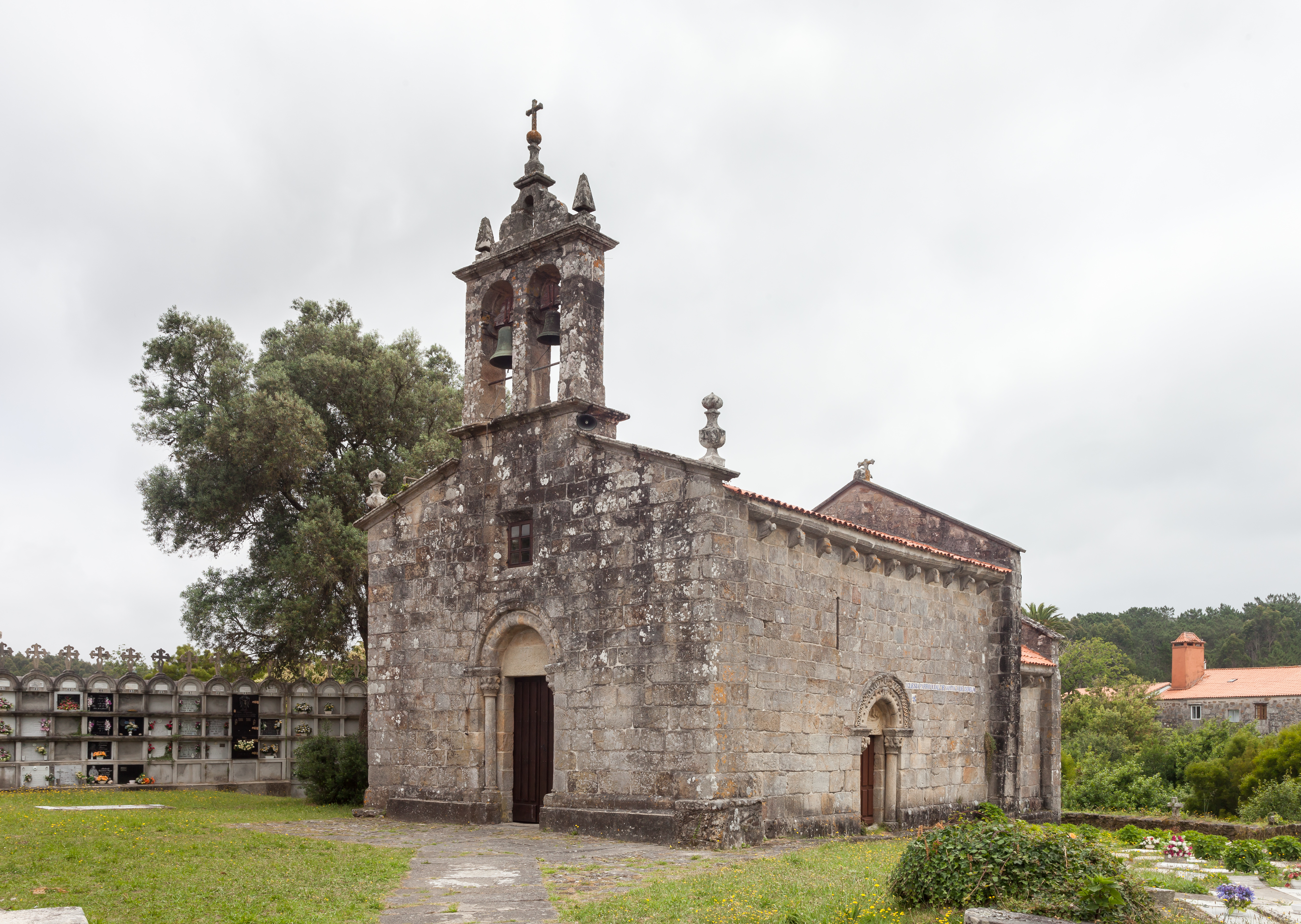 Church of Santiago de Cereixo, Vimianzo, Galicia (Spain).